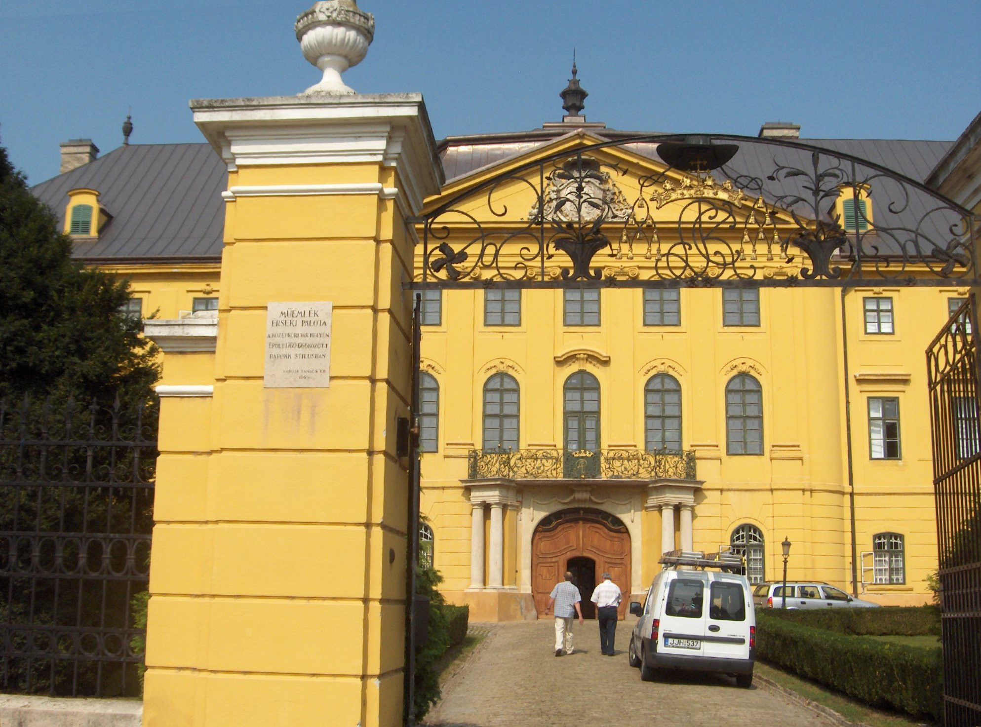 Main entrance of the Archbishop's Palace in the city of Kalocsa